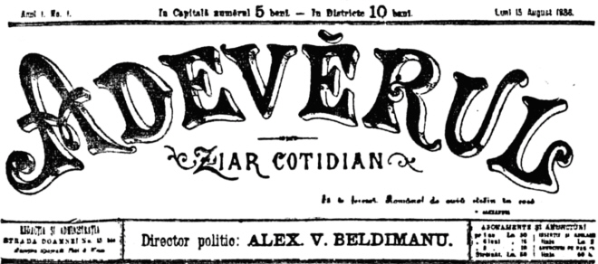 Logo of the Romanian newspaper Adevărul, as used in its first-ever issue